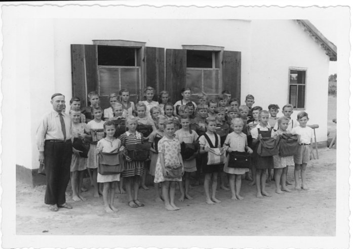 Caption: Spring, 1949. The children are in Paraguay. The school bags come from American Mennonites. Citation: Arthur Voth Photographs, 1947-1949. HM4-387 Box 1 Folder 3 photo 46. Mennonite Church USA Archives - Goshen. Goshen, Indiana.